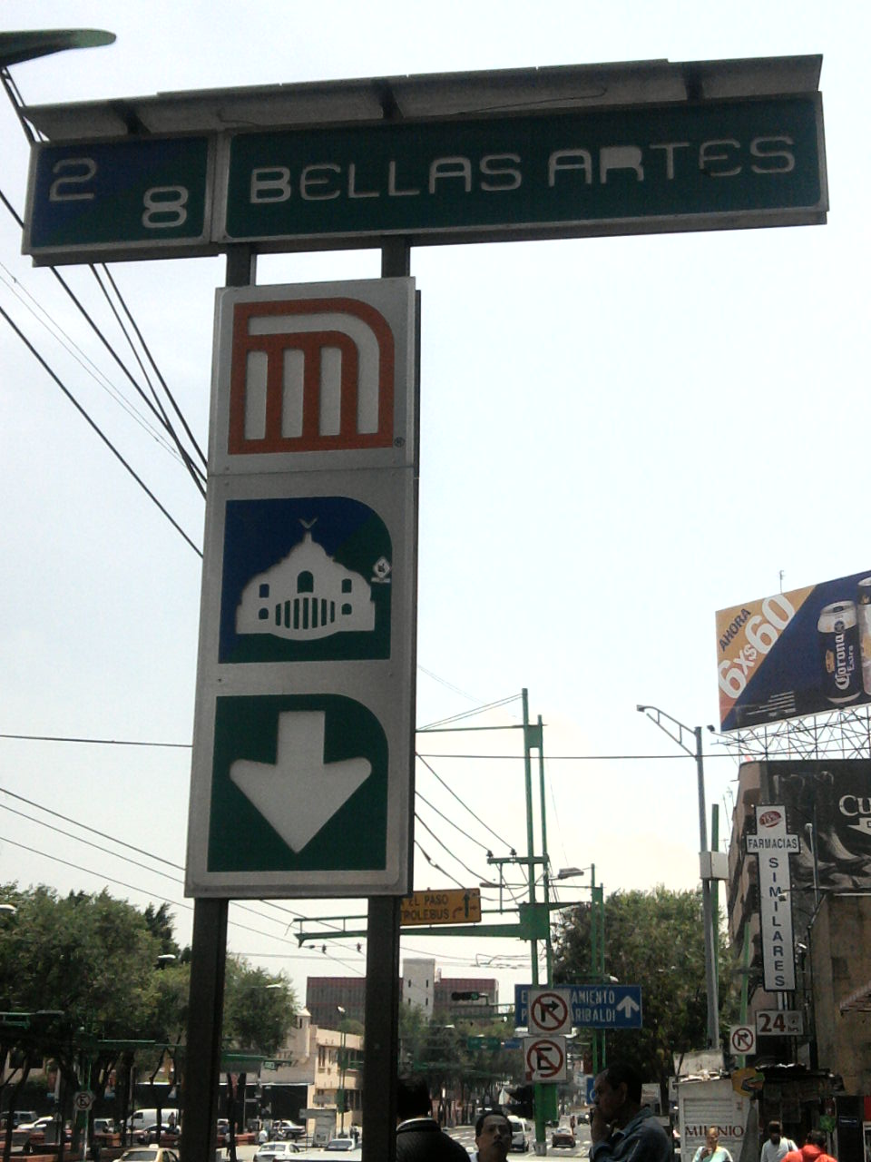 Access to the station Bellas Artes, line 8.